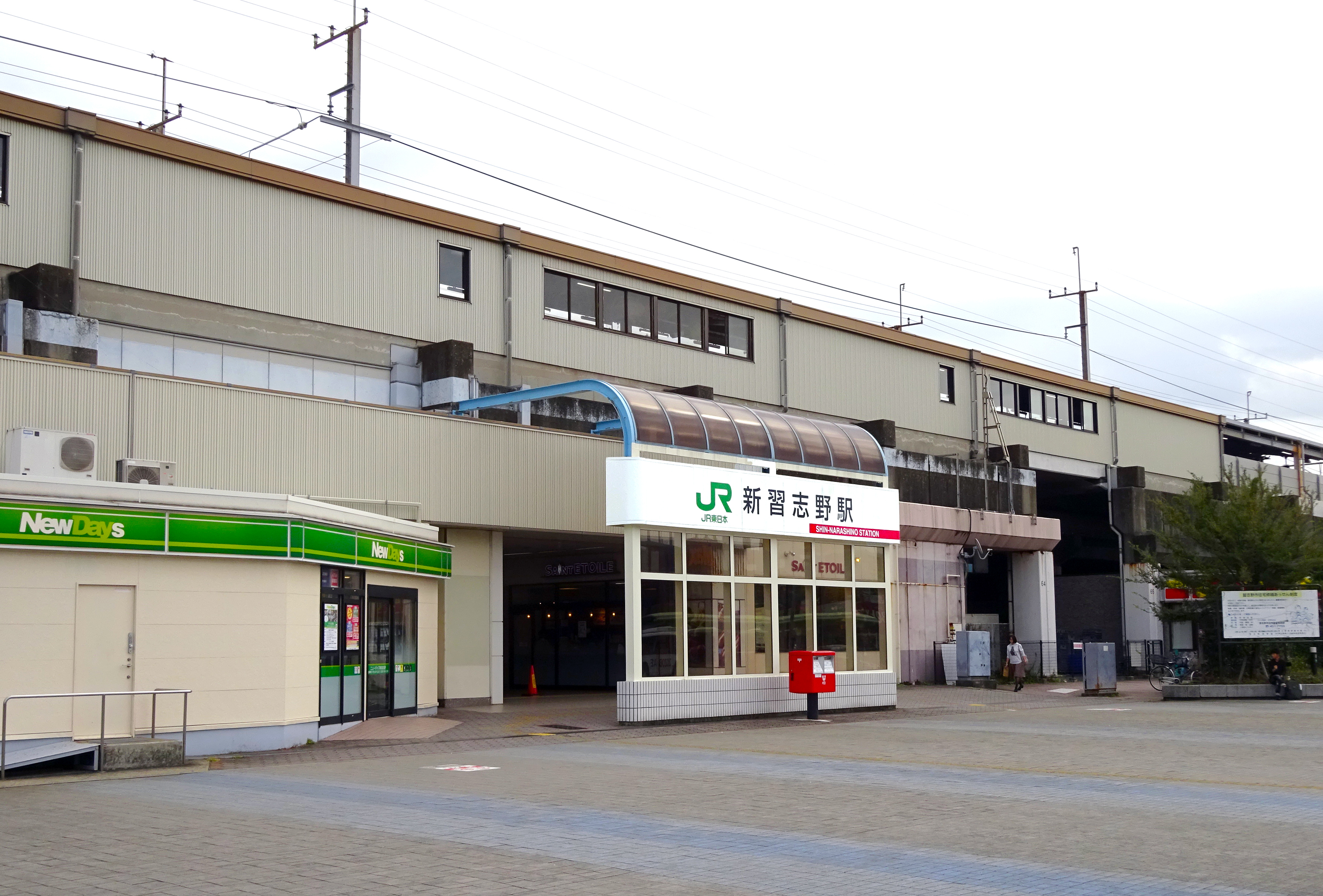 South entrance of Shin-Narashino Station